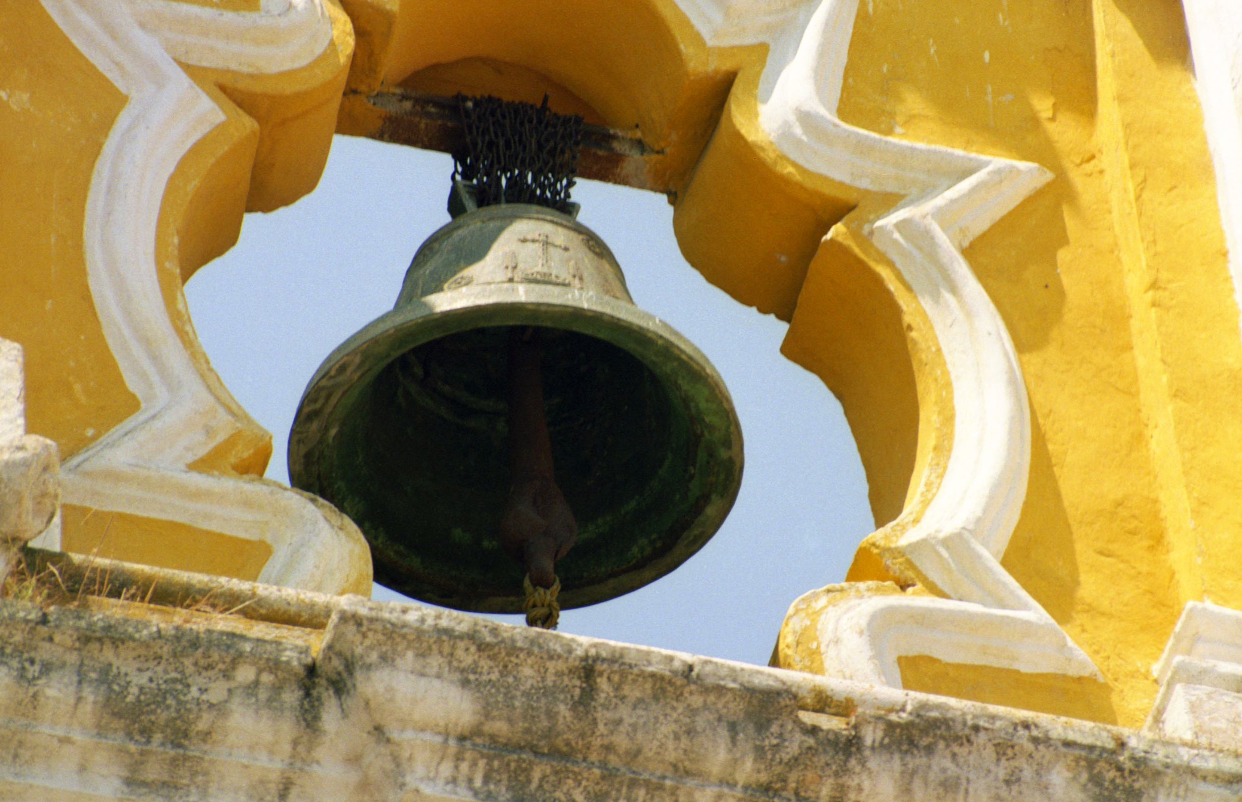 The cathedral bell in central Jalapa/Xalapa, Veracruz, Mexico